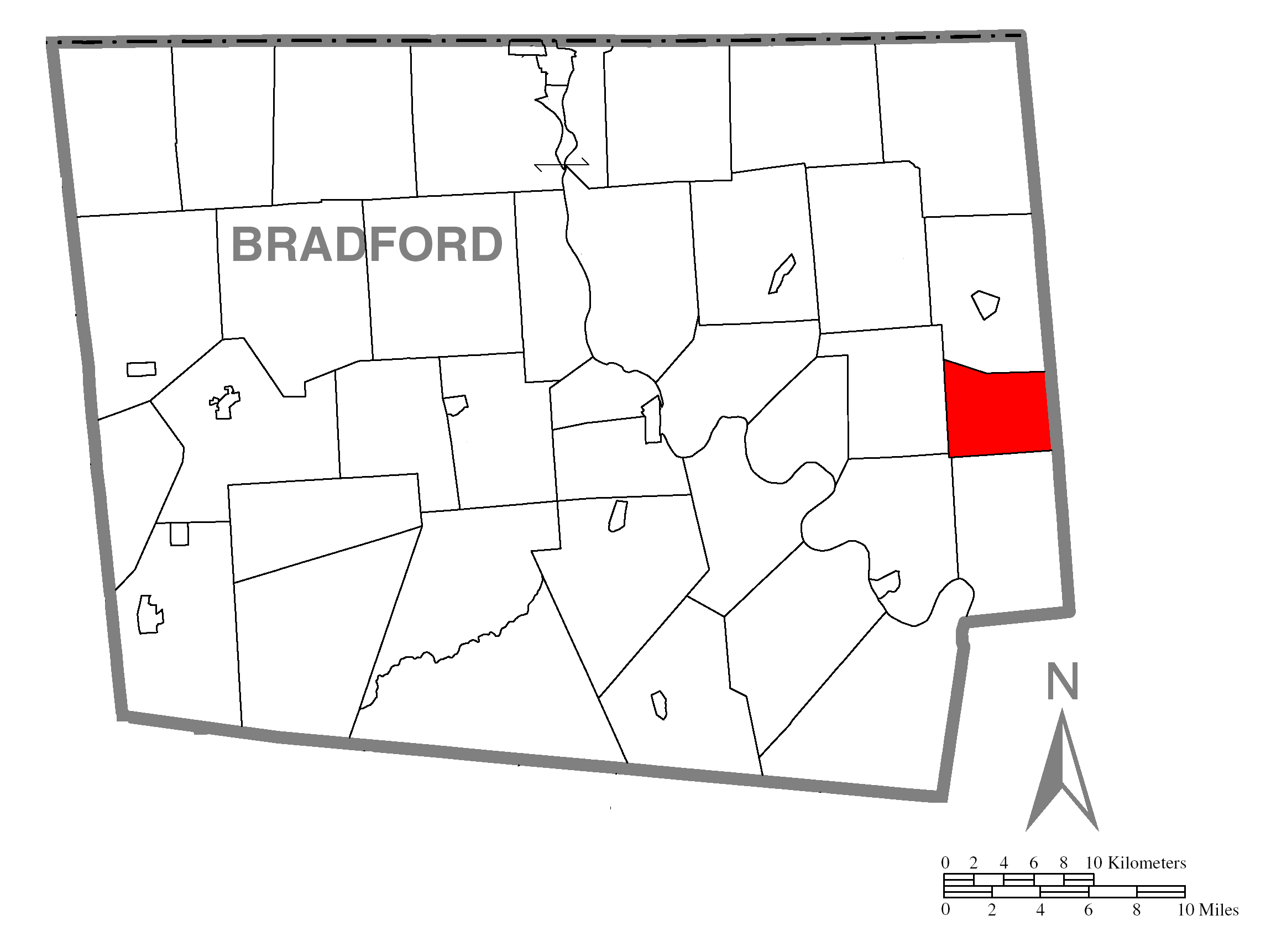 A map of Bradford County showing Stevens Township, Pennsylvania (alternate) highlighted on the map.